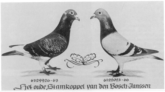 golden couple of pigeons from Karel Meulemans